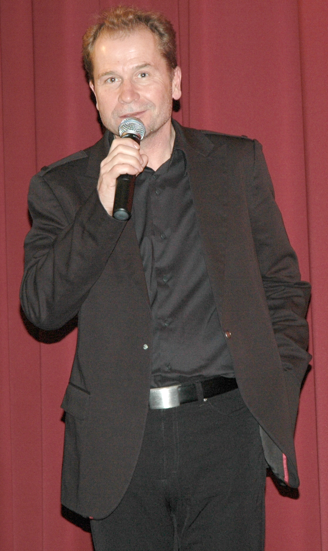 Regisseur Ulrich Seidl bei der Premiere seines Films Import Export im Moviemento-Kino in Linz / Austrian director Ulrich Seidl at the presentation of his movie "Import Export" in the Moviemento cinema in Linz, Austria